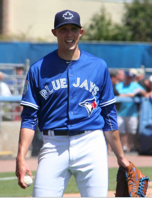 Aaron Sanchez on March 23, 2016